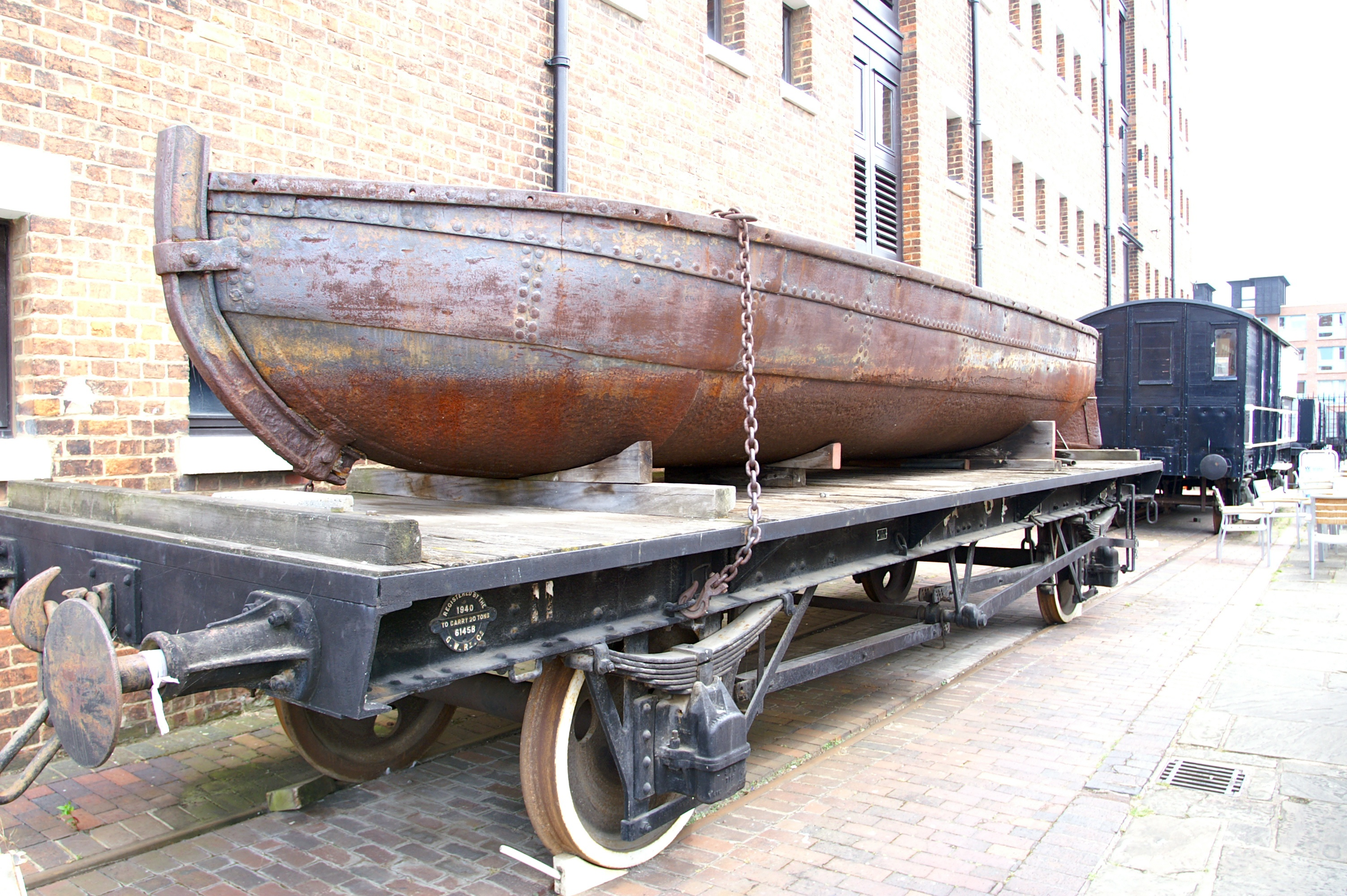 National Waterways Museum, Gloucester